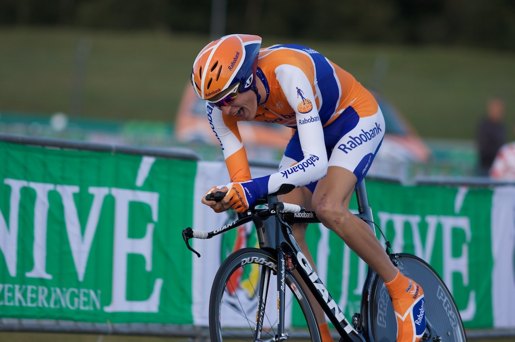 Dutch cyclist Robert Gesink at the prologue of the 2009 Vuelta a España.